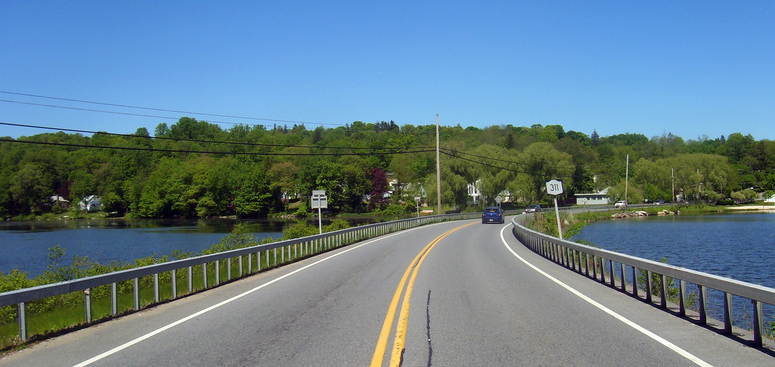 Looking north along NY 311 crossing Lake Carmel just north of its southern terminus at NY 52.